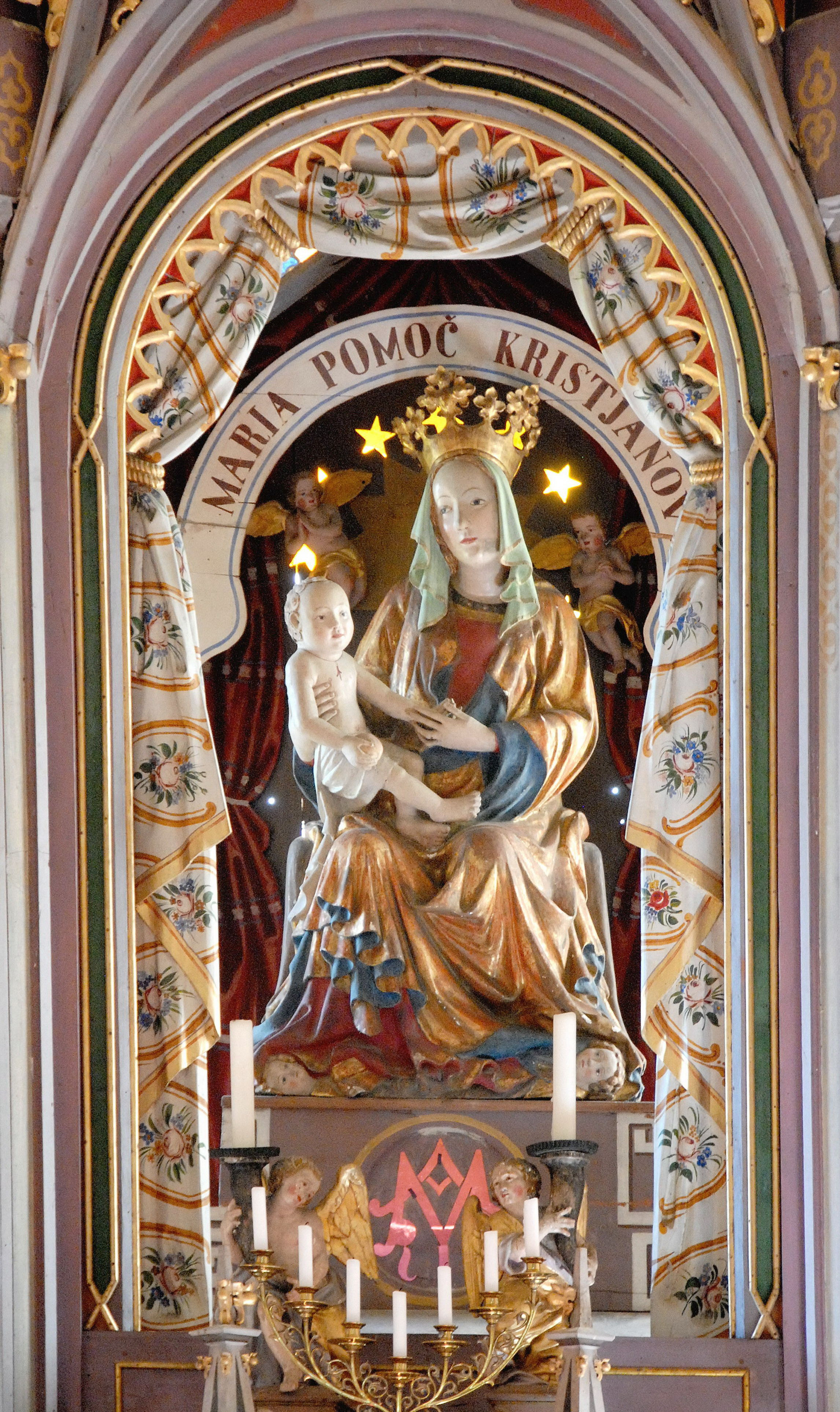 Madonna with Child in the main altar of the pilgrimage church Maria Siebenbruenn at Radendorf, market town Arnoldstein, district Villach Land, Carinthia, Austria, EU